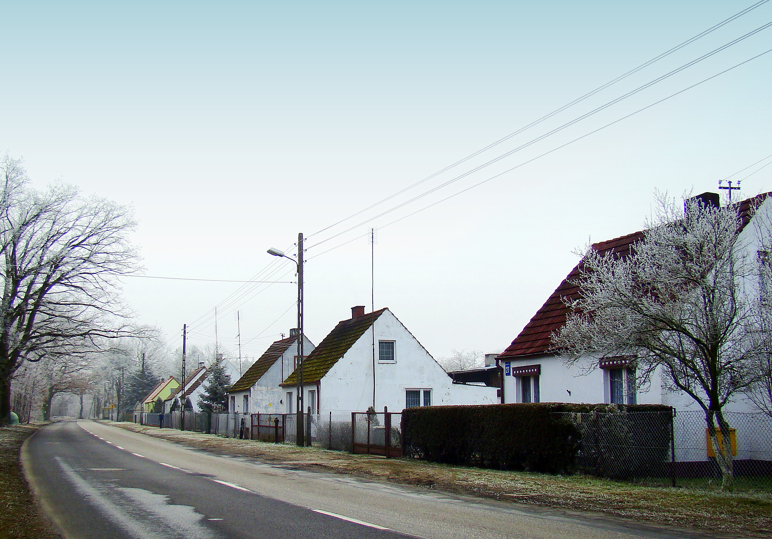 Debostrow (Police County, West Pomeranian Voivodeship), Poland